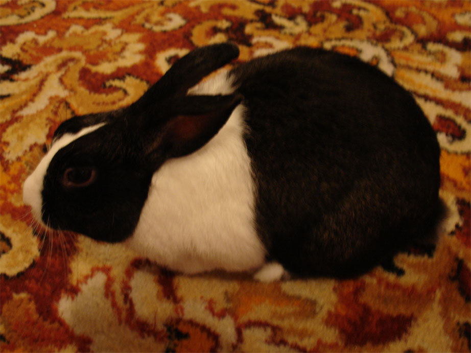 Dutch Rabbit